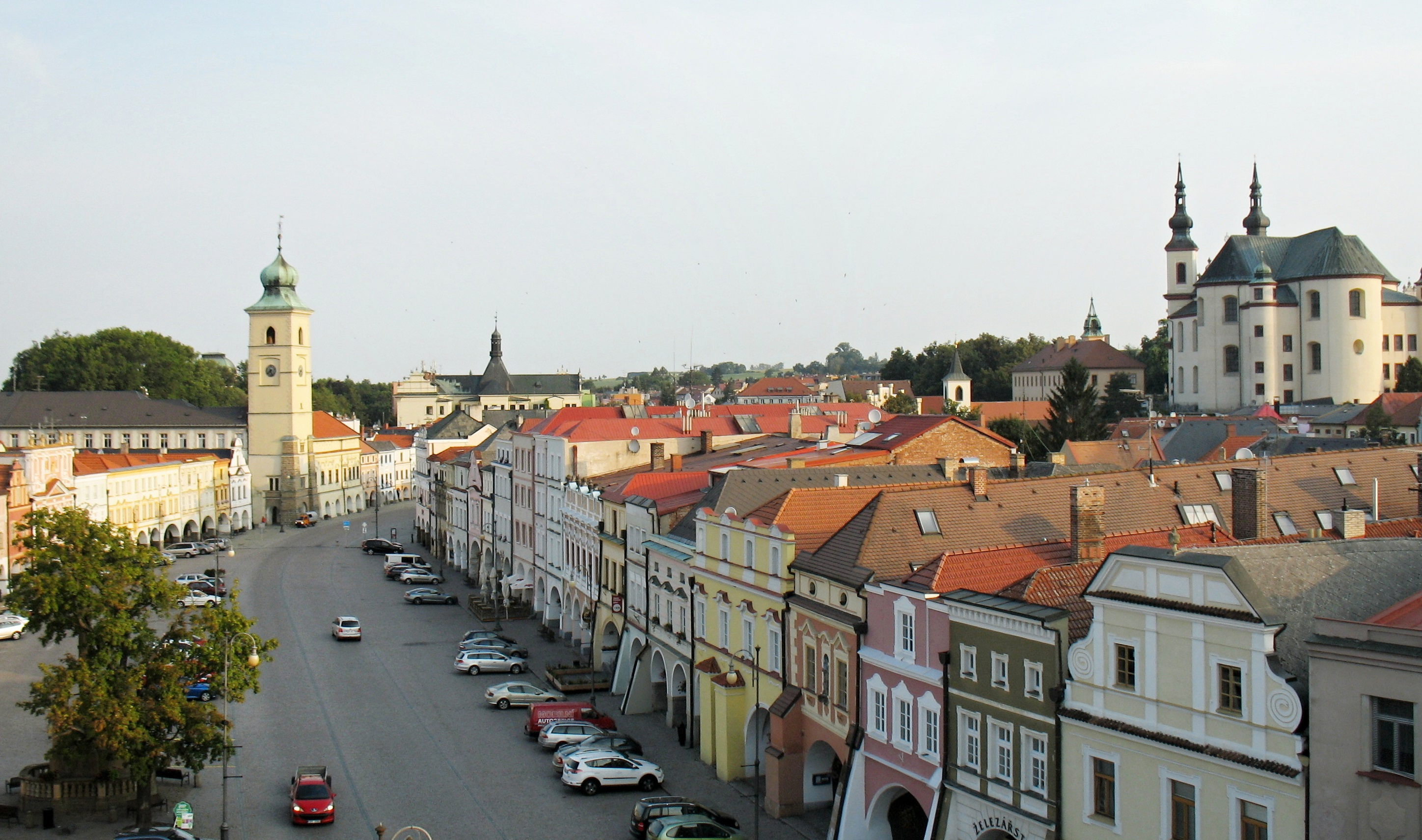 Views of Litomyšl city centre from hotel Zlatá Hvězda